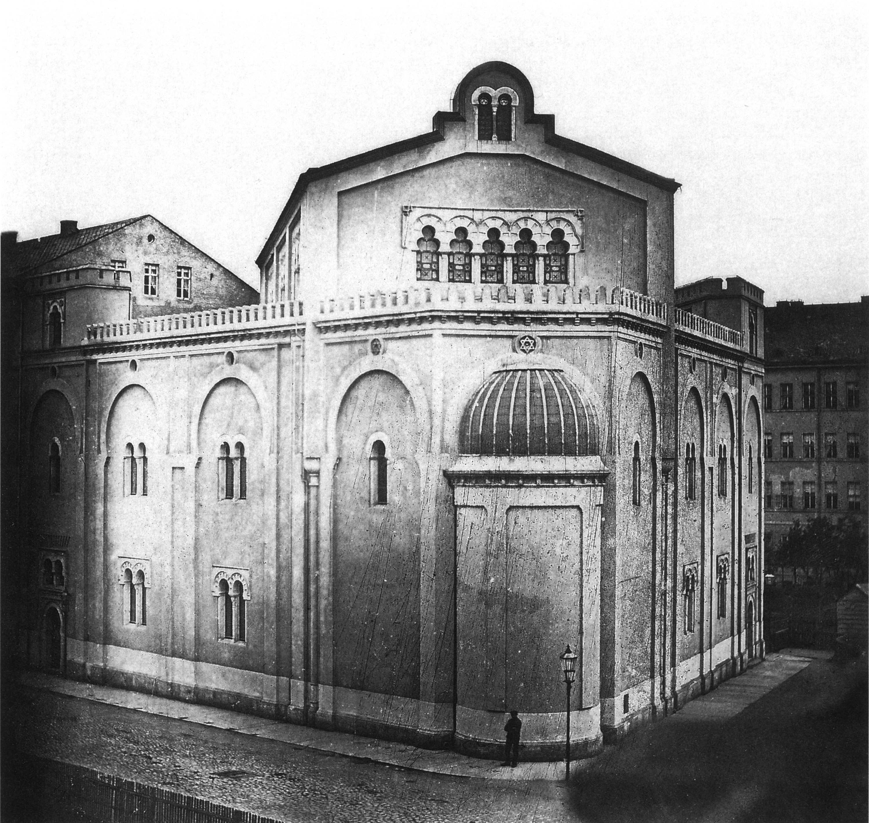 Old town synagogue of Leipzig, Gottschedstrasse 3 corner Zentralstrasse, view from east